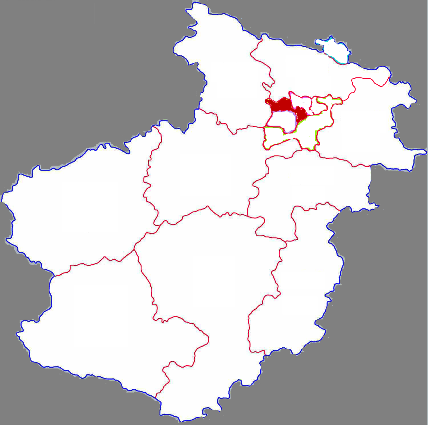 Location of Xigong district in Luoyang city, China